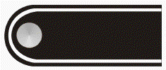 Rang insignia shoulder board of SS enlisted men in black with white piping, here SS-Schuetze , SS-Oberschuetze, SS-Sturmmann and SS-Rottenfuehrer up to 1945.